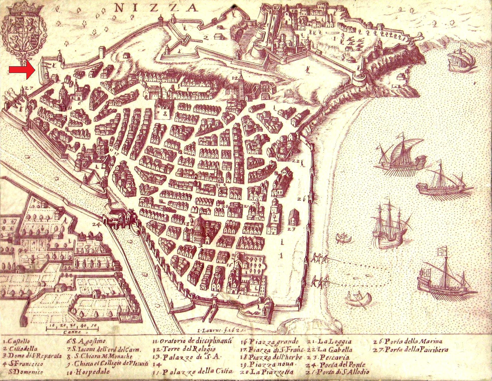 City map of Nice in 1624. The red arrow indicates the location of the bastion Sincaïre.